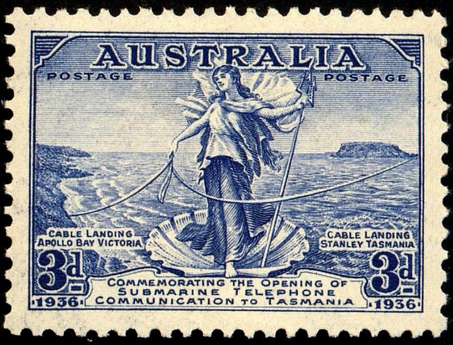 A scan of a 1936 Australian postage stamp commemorating the opening of the undersea cable from Tasmania (Stanley) to the mainland (Apollo Bay, Victoria) depicting Amphitrite